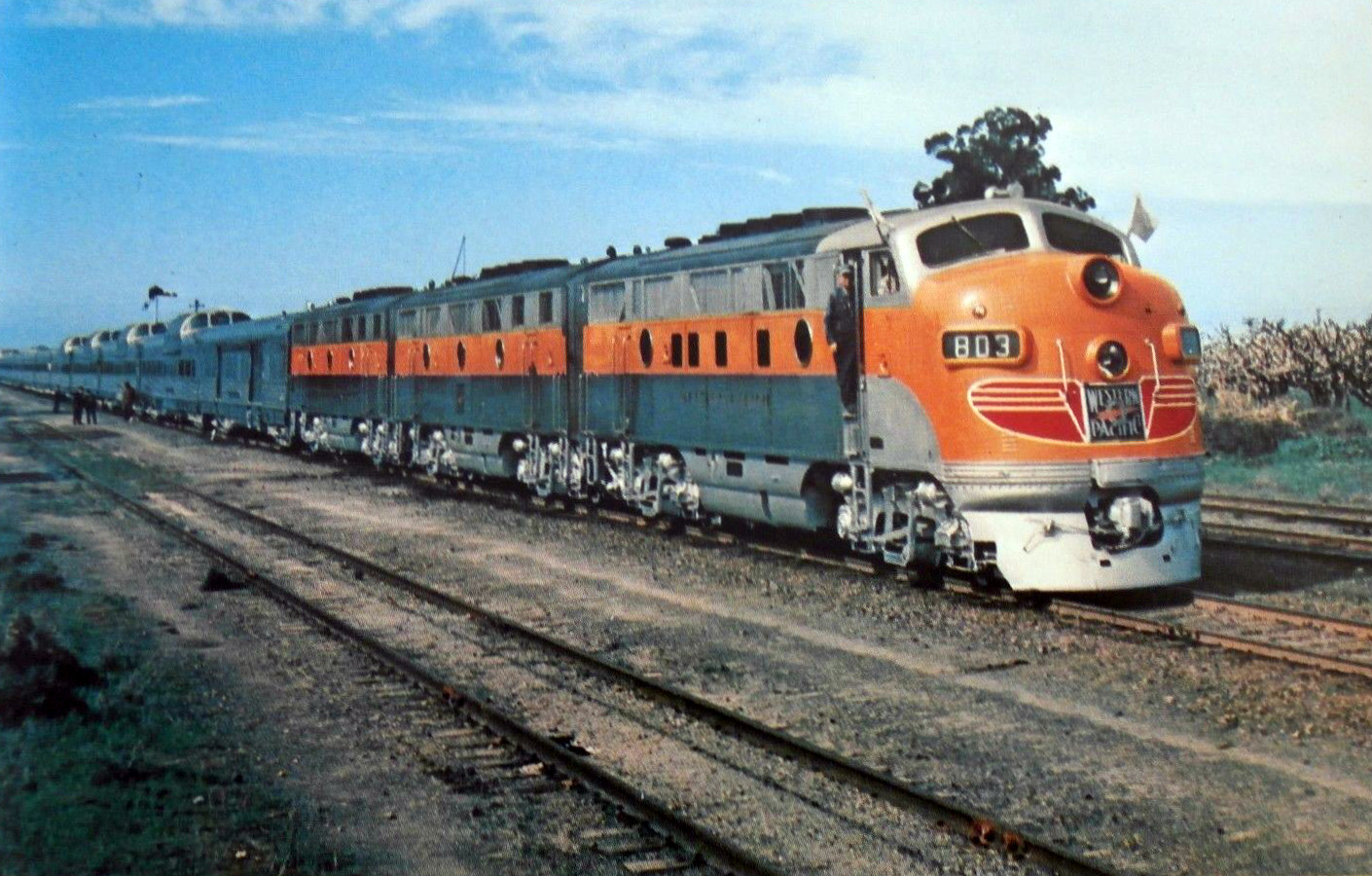 Postcard photo of the California Zephyr prior to her first 1949 run.